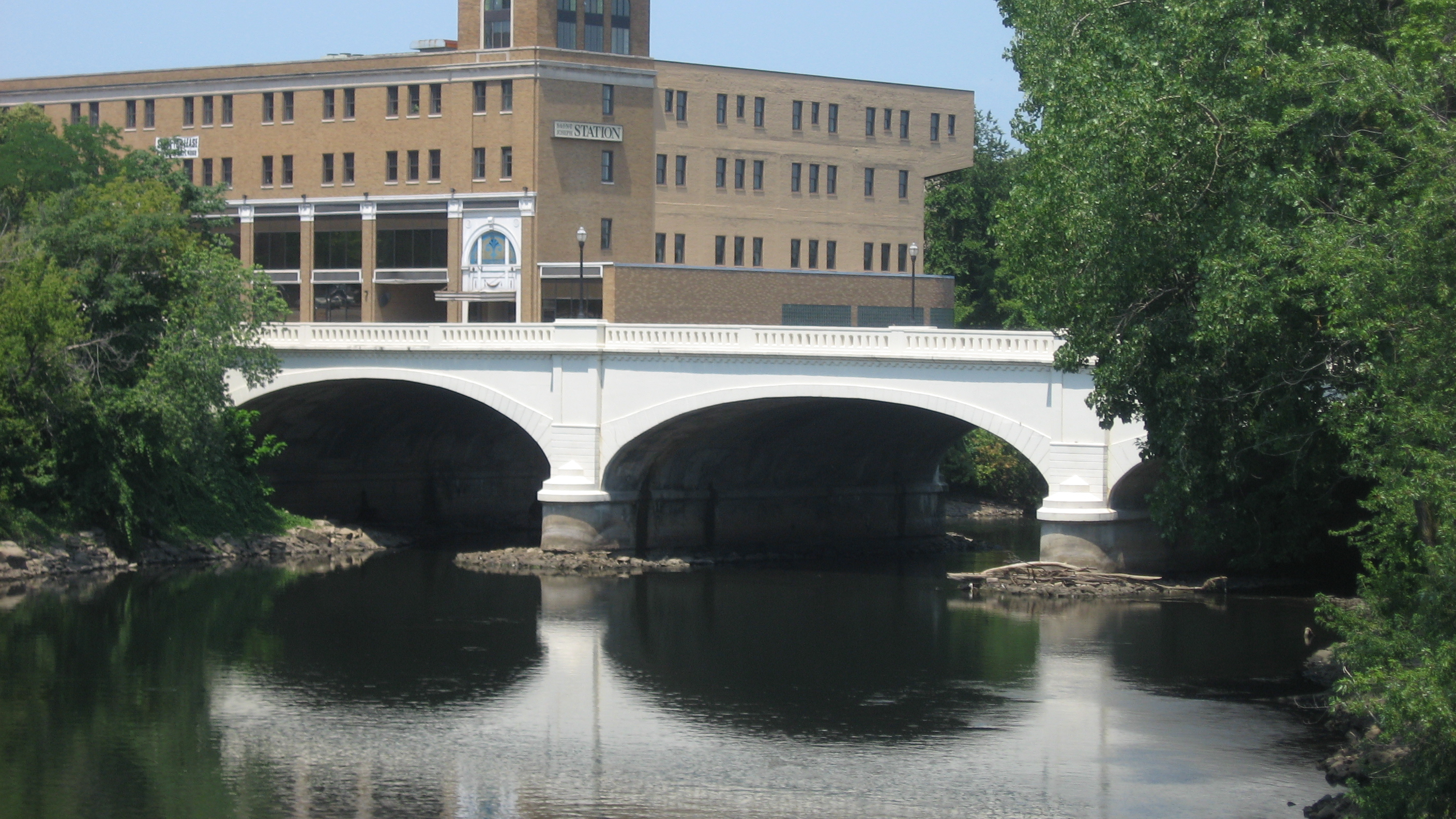 Southern (upstream) side of the La Salle Street Bridge, which carries E. LaSalle Avenue over the St. Joseph River in South Bend, Indiana, United States. Built in 1907, it is listed on the National Register of Historic Places.